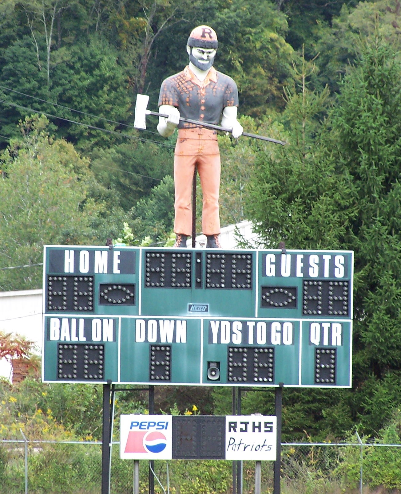 The scoreboard at Dean Memorial Field in Richwood, WV, the home of Richwood High School's football (American code) team.